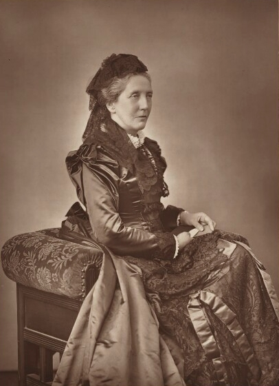 Constance Frederica Gordon-Cumming (1893) by Herbert Rose Barraud (1845-1896)